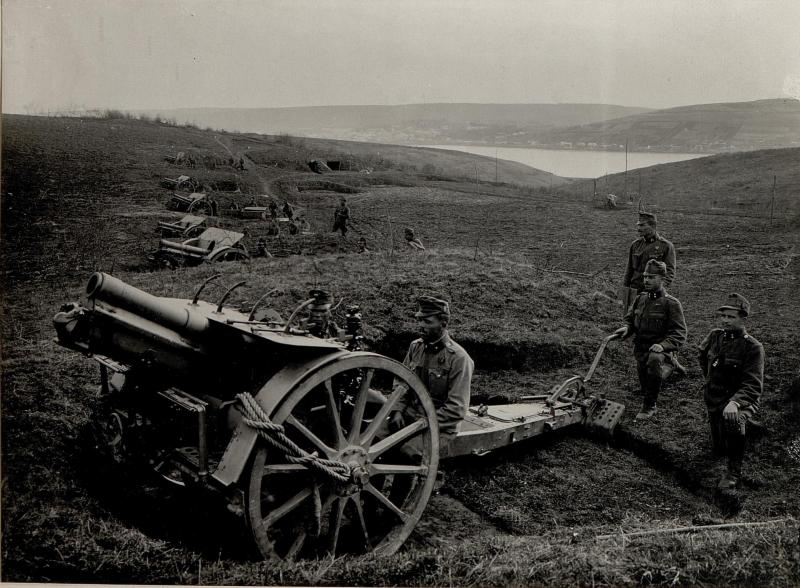 Brzeżany in 1917